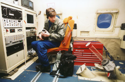 A technician an a NOAA P-3 Hurricane Hunter prepares to eject a Dropsonde via the pressurized sono chute on the floor.